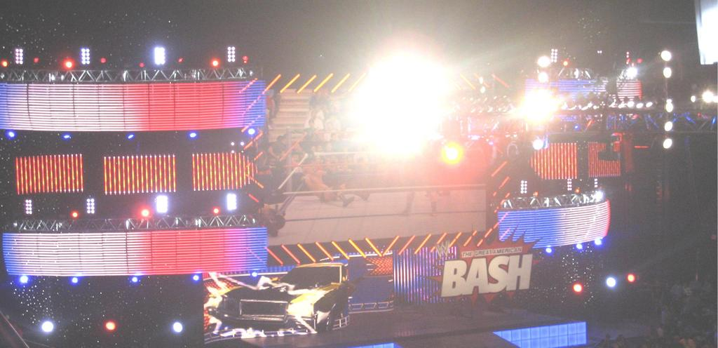 A FREE USE picture of the set used for The Great American Bash 2008